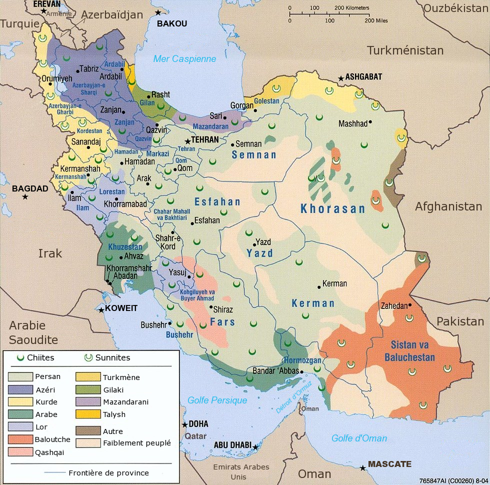 ethnoreligious distribution in Iran - 2004 - Distribution ethnoreligieuse en Iran